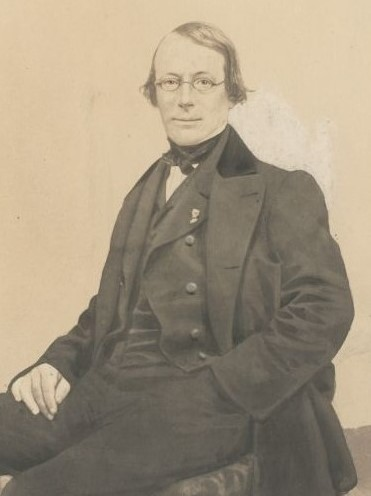 Eugèni Sobeiran in the early 19th centuryOccitan : Lo quimista e farmacian occitan Eugèni Sobeiran durant la primièra mitat del sègle XIX